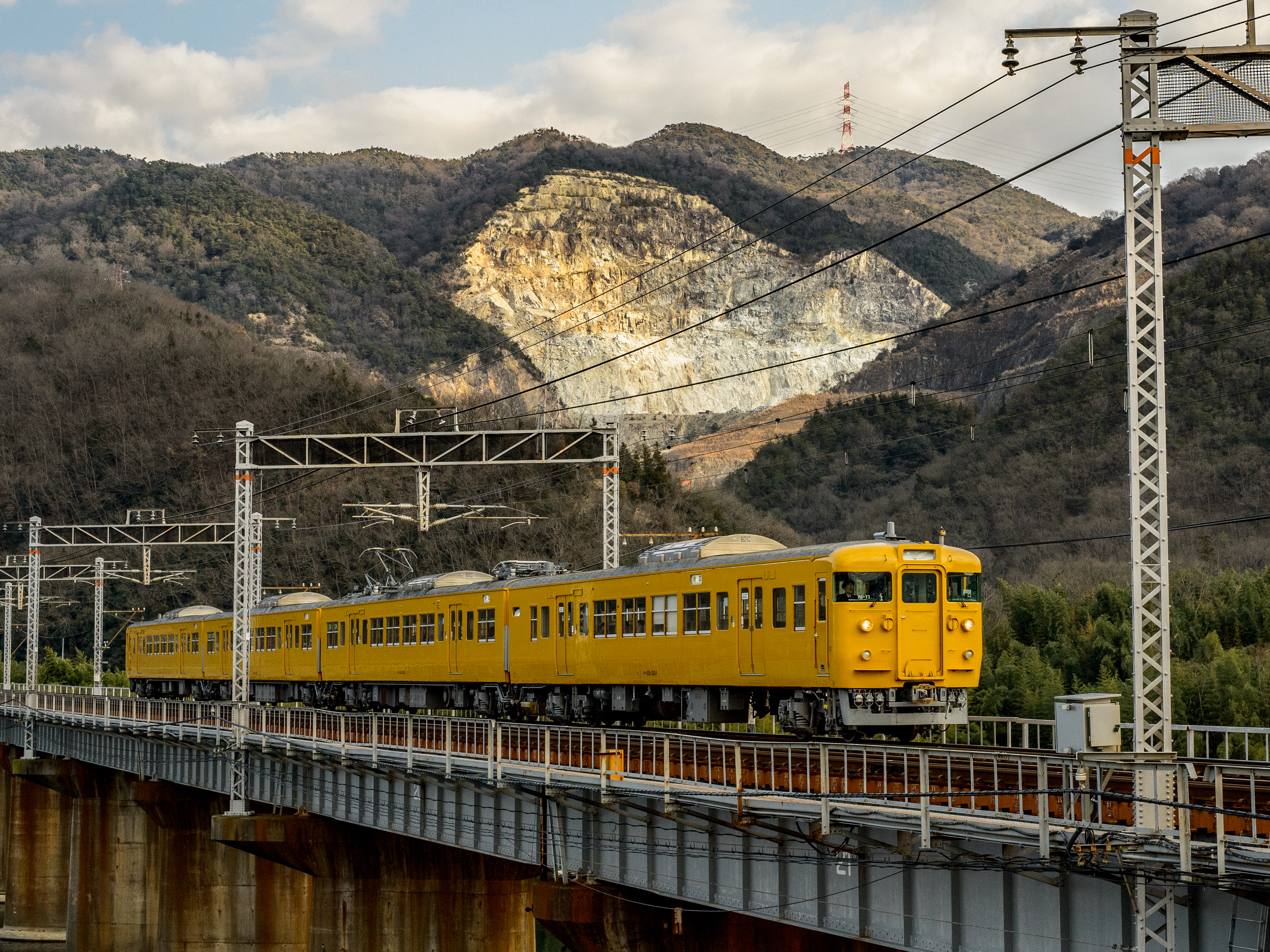 A JR West 115 series EMU in yellow Setouchi regional livery on a Sanyo Line service